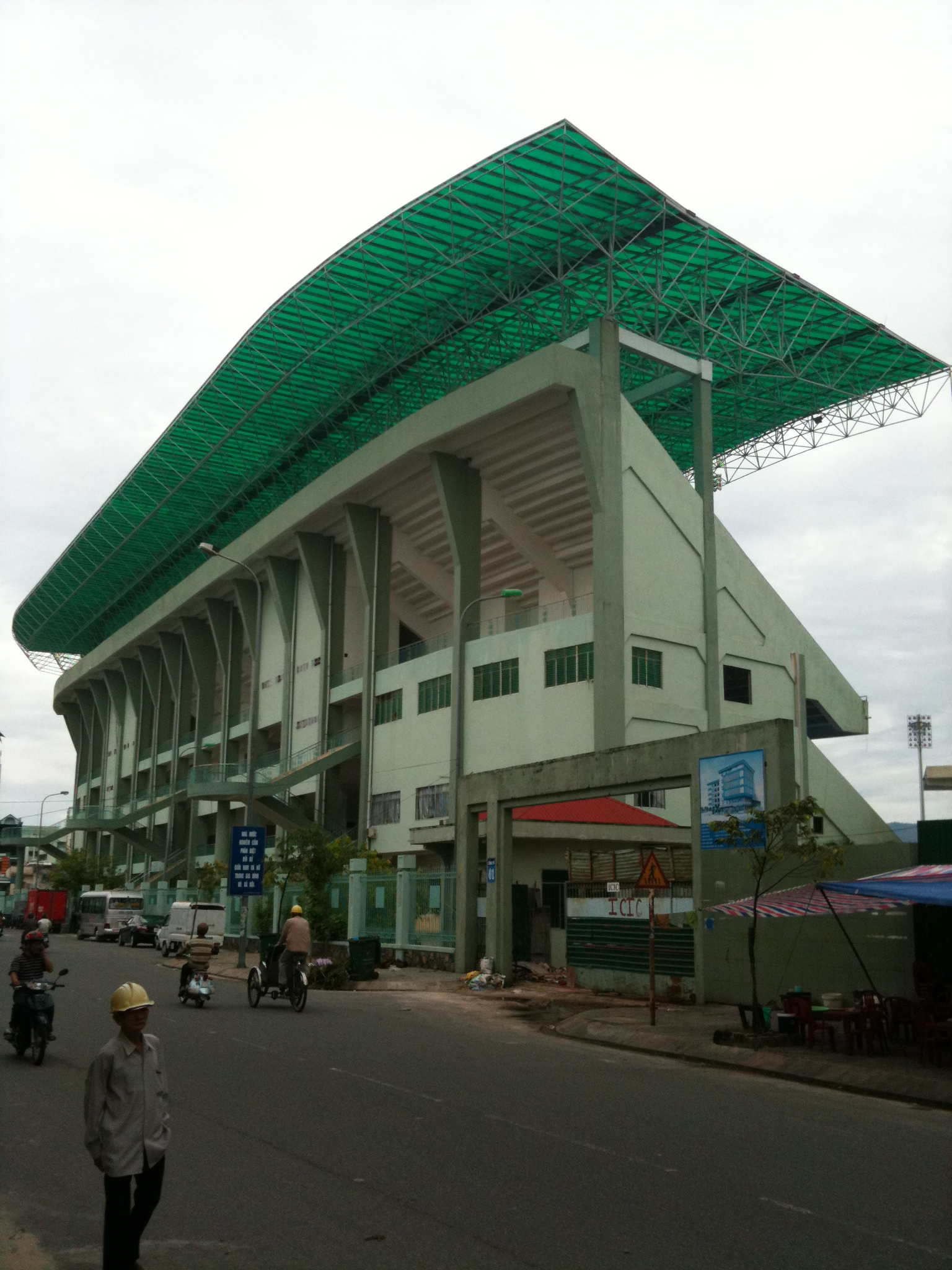 Chi Lang Stadium, Da Nang, as seen from the outside.